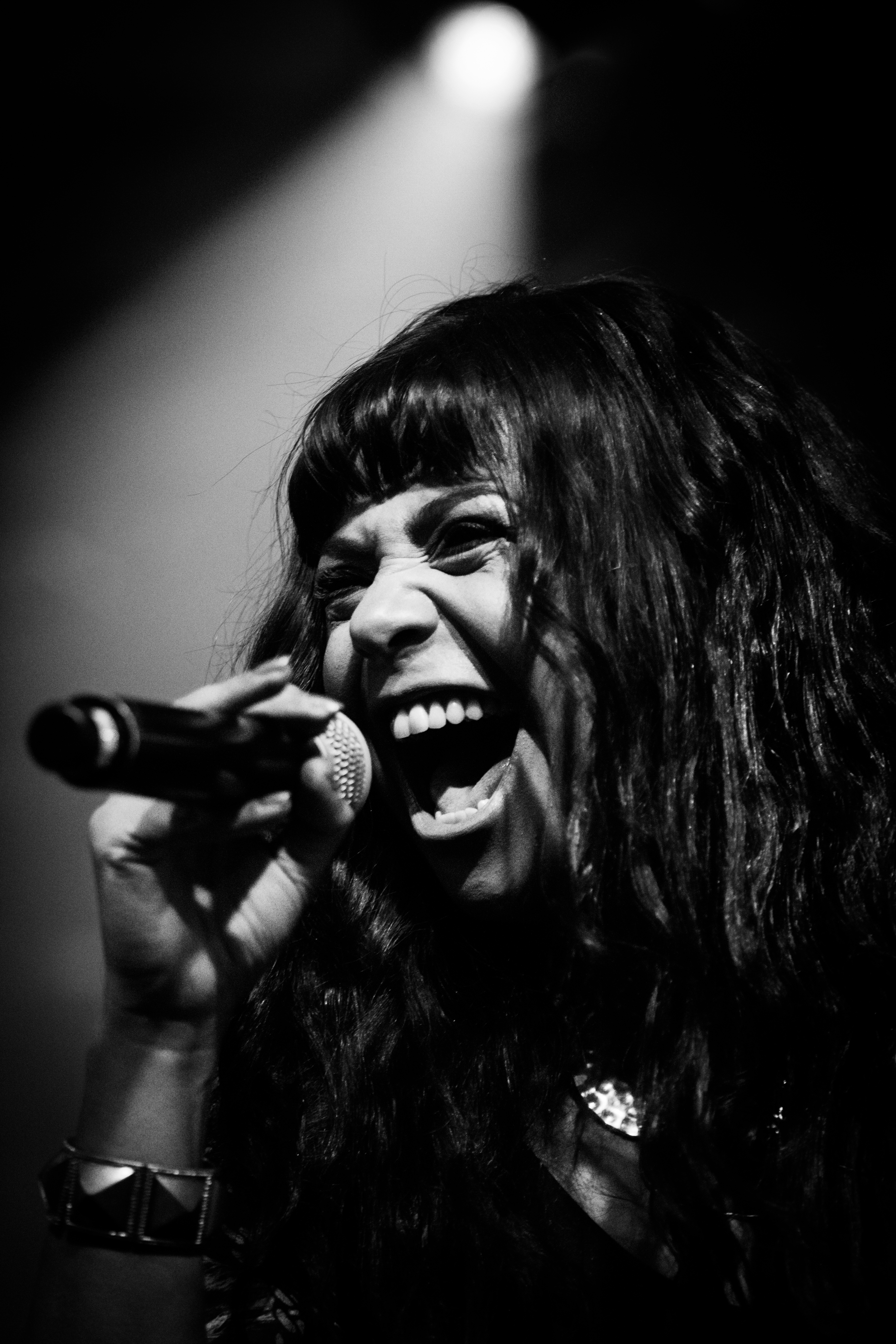 The Brand New Heavies - Leverkusener Jazztage 2016